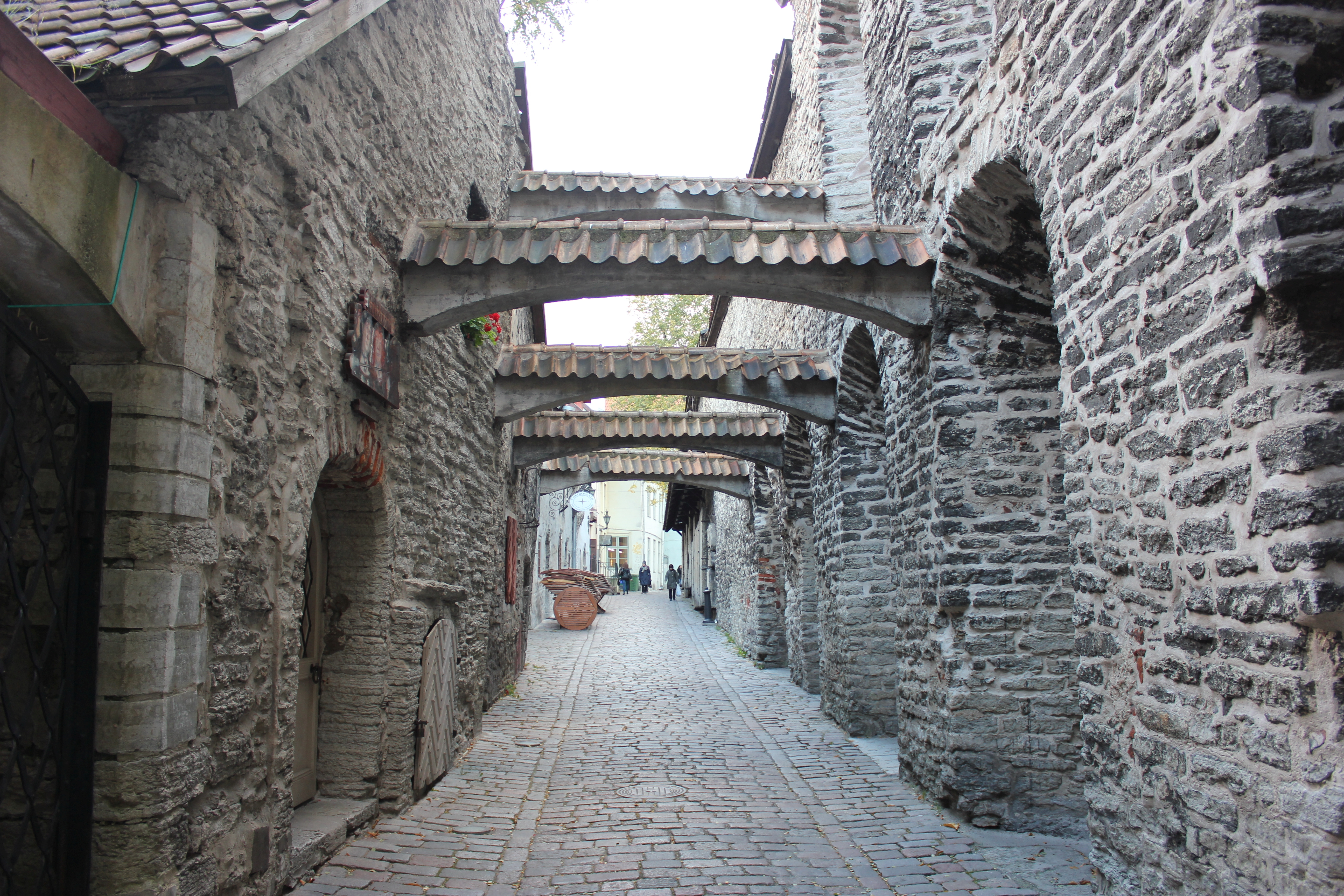 Tallinn - St. Catherine Passage